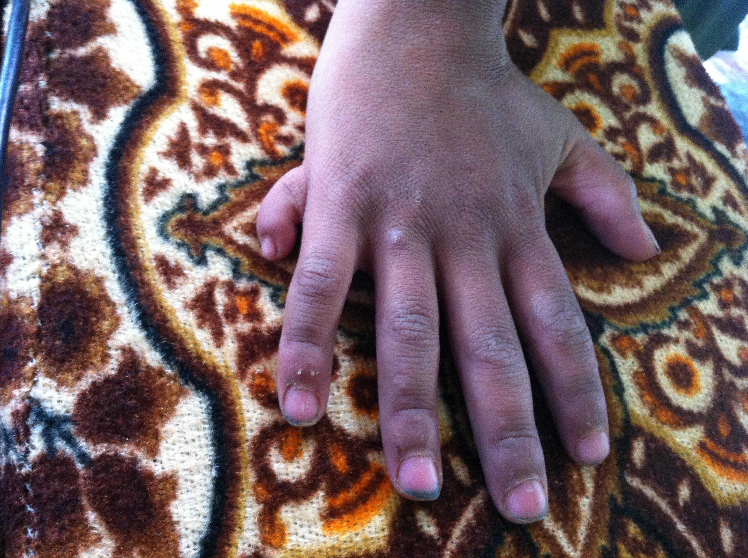 postaxial polydactyly